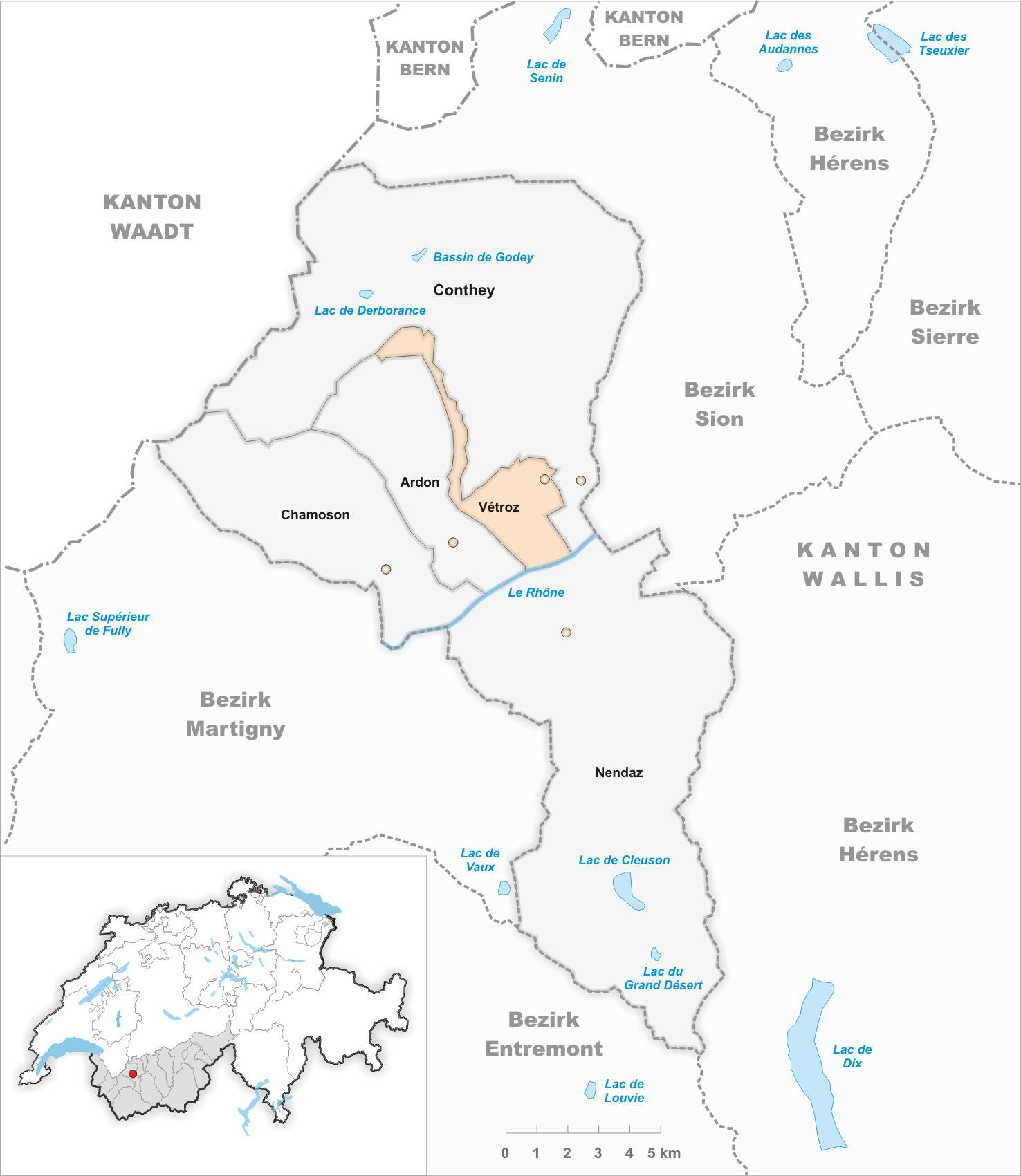 Municipality Vétroz